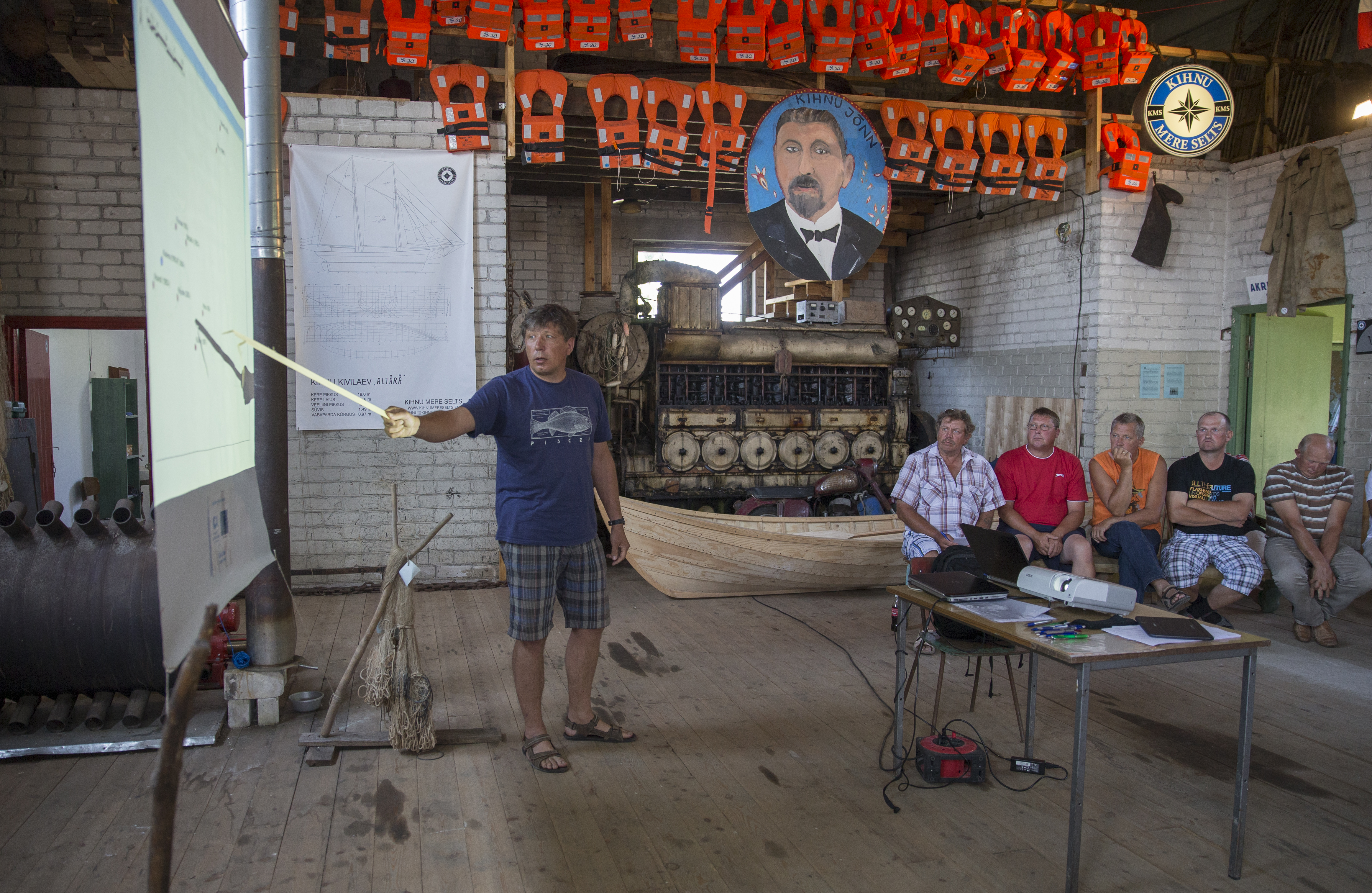 Redik Escbaum from Estonian Marine Institute (University of Tartu) introducing the results of long term monitoring to local fishermen in Kihnu, Estonia. On the upper part of the photo there is the image of Kihnu Jõnn, one of the most famous Estonian sea captain.